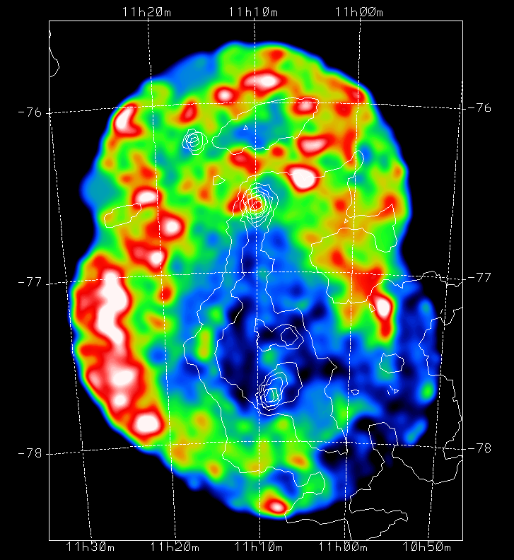 This image shows a ROSAT PSPC false-color image of the Chamaeleon I dark cloud, a well-known site of star formation. The contours show the 100 micron emission from dust in this cloud as measured by the infrared IRAS satellite. This image was made from X-rays with energies between 500 eV and 1100 eV. Since these soft (low energy) X-rays are absorbed by interstellar dust and gas, the observation of a "shadow" provides an indication of the intensity of X-rays coming from behind the absorbing cloud. X-ray "shadows" like this are the X-ray analog of well-known optical dark nebulae such as the Horsehead Nebula, produced by absorption in a dark cloud of optical photons emitted in a bright nebula behind the cloud. In the X-ray case, the entire sky is bright with a diffuse glow known as the diffuse X-ray background (somewhat like the night sky as seen from a modern city, where scattered light from street lamps produces a bright glow in the sky and washes out all but the brightest stars). Observations like this will help us understand the source of the diffuse X-ray background at these energies, which is known to be different from the 1/4 keV diffuse background shown in our image of the Draco nebula in this directory.